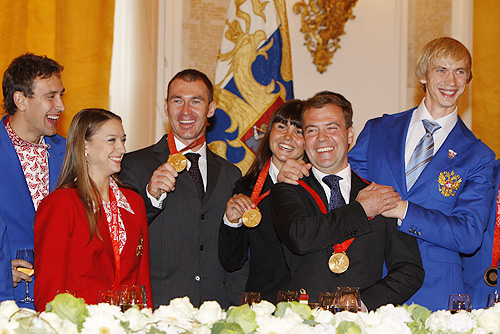 GRAND KREMLIN PALACE, MOSCOW. At a meeting with Russian champions and medal – winners of the Beijing Olympics. With Olympic champions Andrei Moiseev (pentathlon), Evgeniya Kanaeva (rhythmic gymnastics), Maxim Opalev (canoe), Larisa Ilchenko (marathon swimming), and Andrei Silnov (high jump).